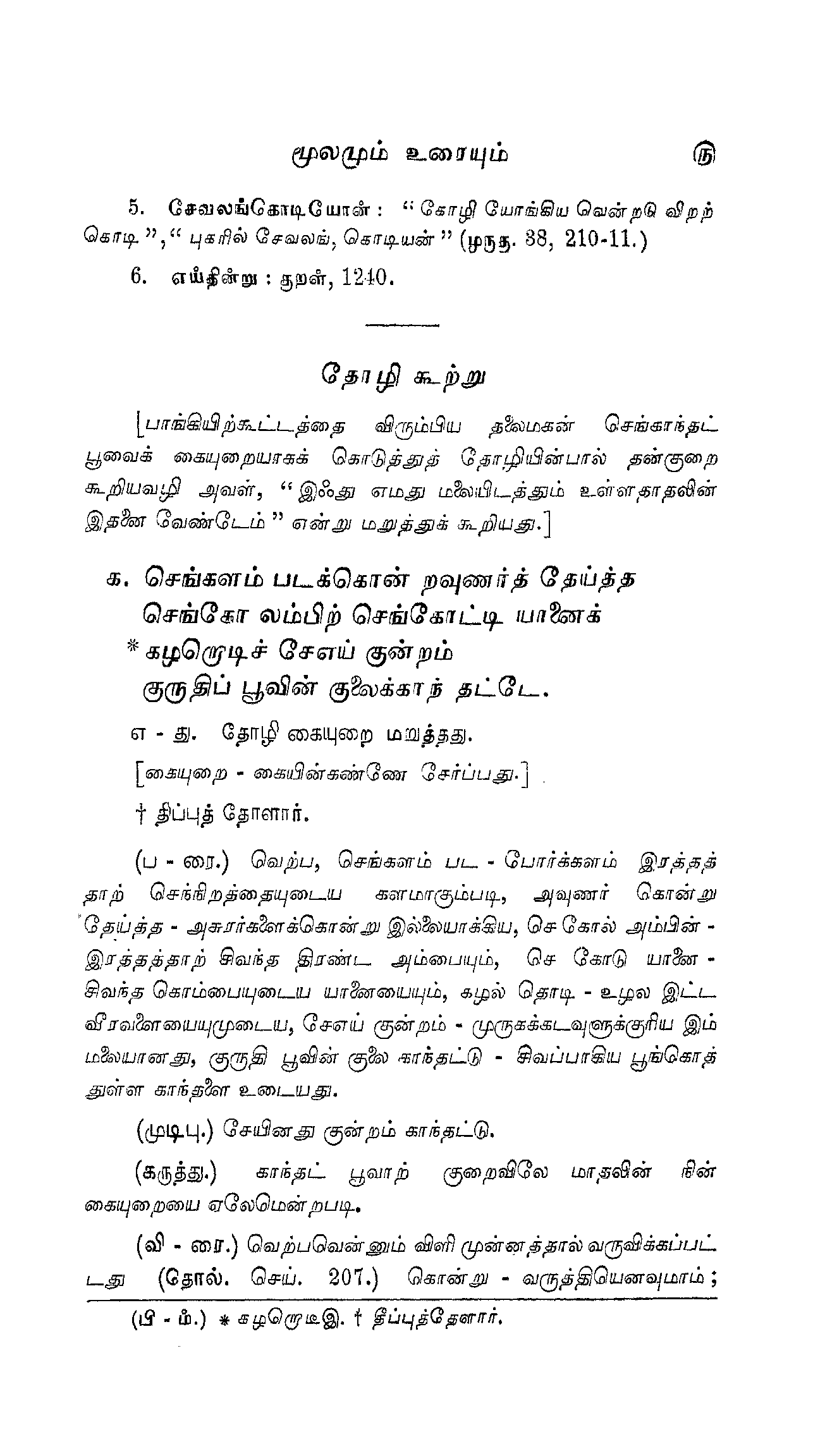 A page from U. V. Swaminatha Iyer's 1937 edition of the Kuṟuntokai, a work of classical Tamil literature.